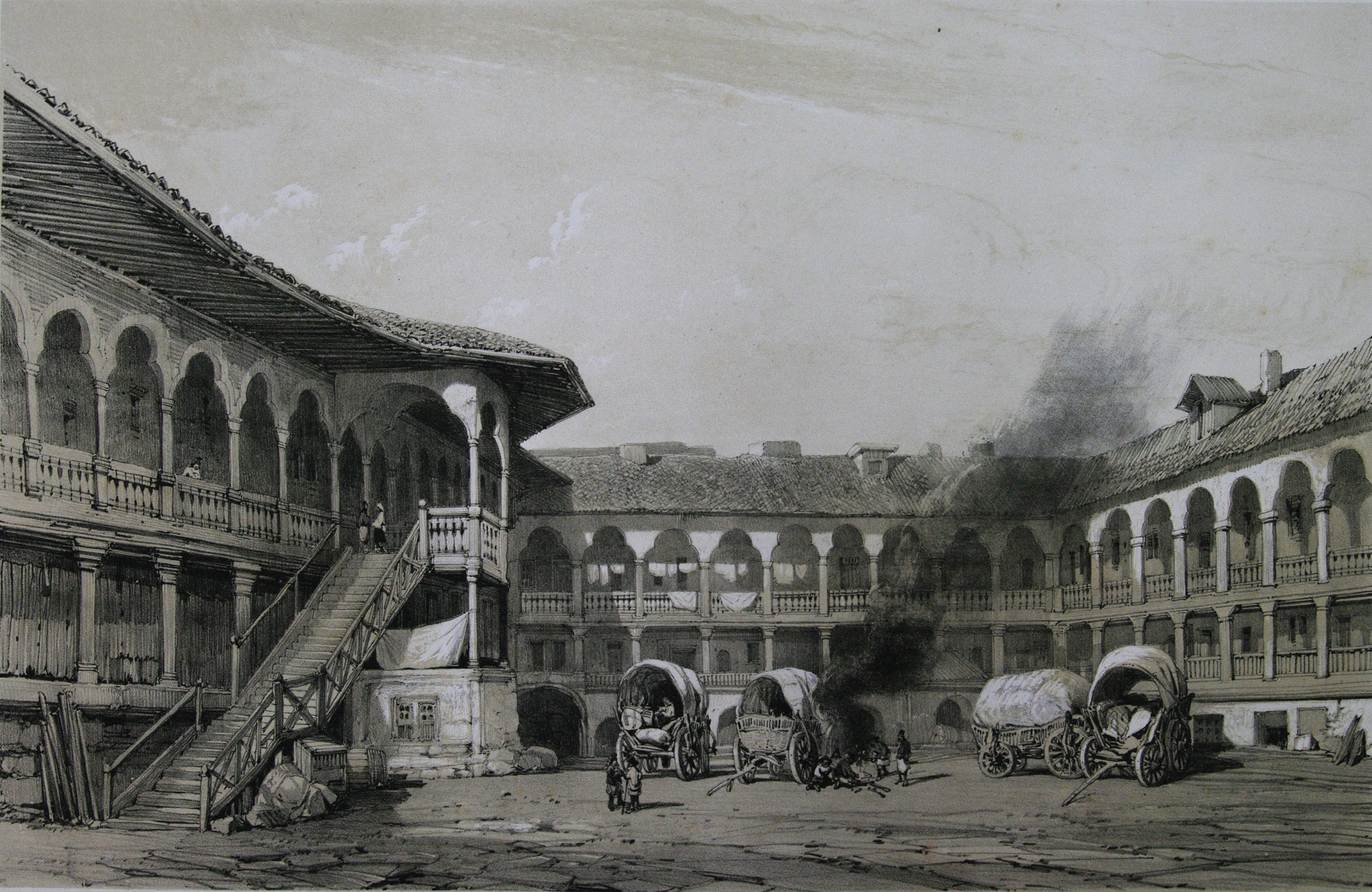 Courtyard of Hanul lui Manuc (Manuc's Inn) — Bucharest, Romania. 1841 lithograph by Michel Bouquet.